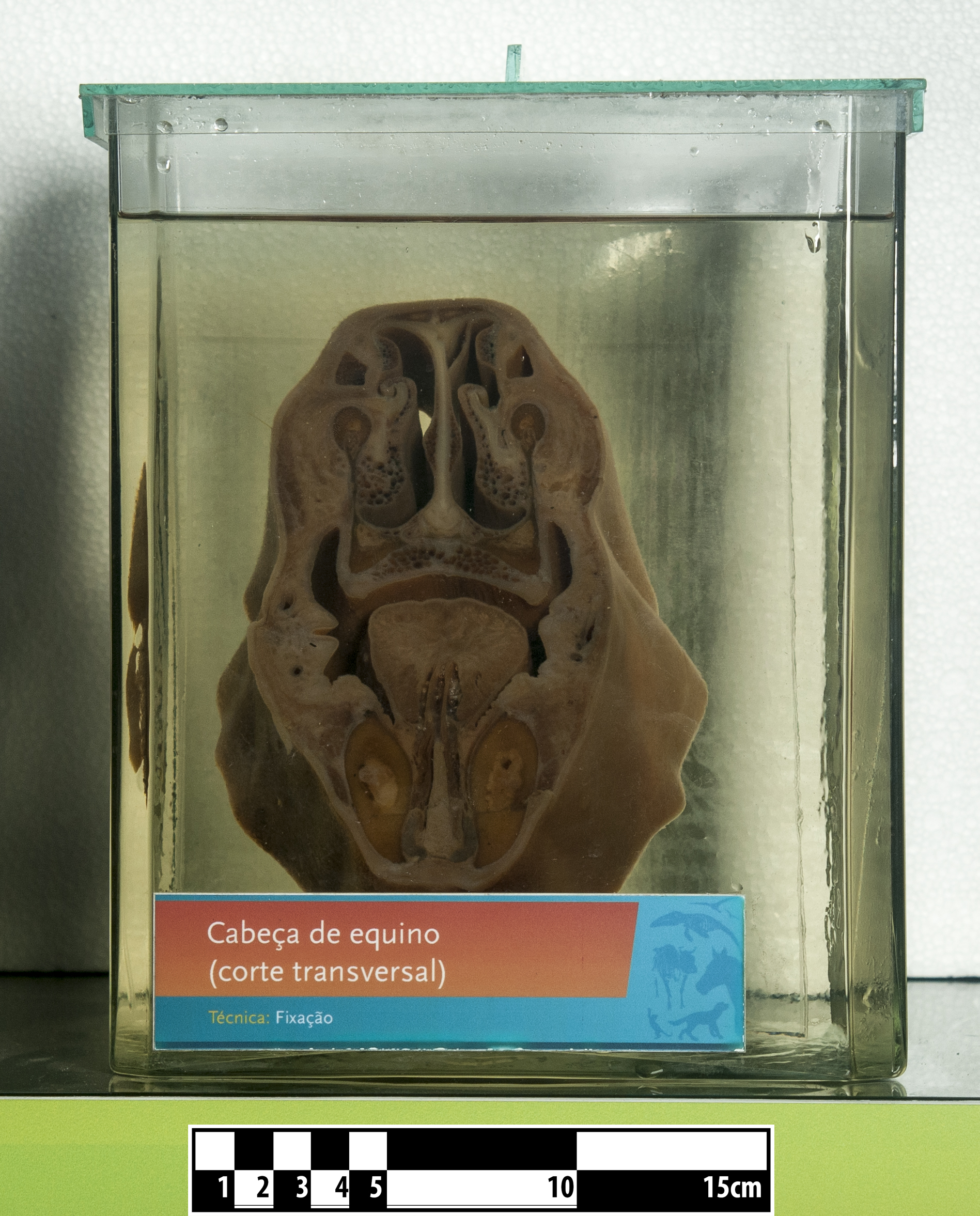 Cross section of a head of horse. Equus Technique of glycerination on display at the Museum of Veterinary Anatomy FMVZ USP. This file was published as the result of a partnership between the Museum of Veterinary Anatomy FMVZ USP, the RIDC NeuroMat and the Wikimedia Community User Group Brasil. This GLAM project is reported. Photography: Museum of Veterinary Anatomy FMVZ USP. Author: Wagner Souza e Silva.